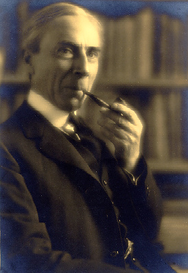 This is a professional portrait of Bertrand Russell in his early fifties. Date: c. 1924